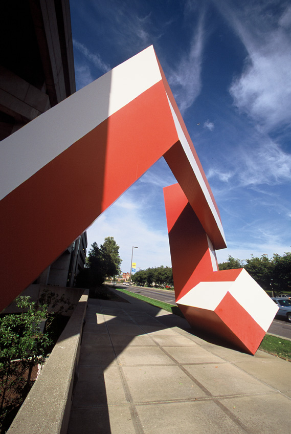 City Candy (1983) by Pierre Clerk The photo credit for the image of City Candy should go to Grand Lubell Photography (